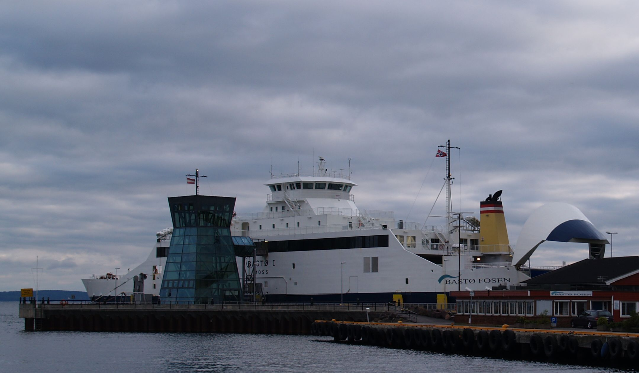 Ferry Bastø 1 in the ferry terminal in Horten. It's route is across the Oslo fiord between Horten and Moss.